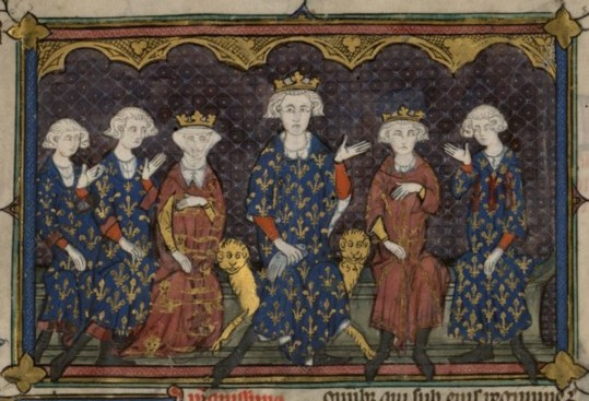 Philip IV of France